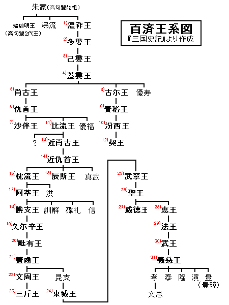 the geneology of Baekje / 百済王系図 450*600px